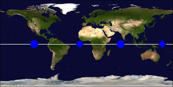 Stable positions of GEO satellites: 105°W (stable), 15°W (labile), 75°E (stable), 165°E (labile). See Geosynchrone Umlaufbahn Based on image:Whole_world_-_land_and_oceans.jpg. Drawing of lines and dots own work.